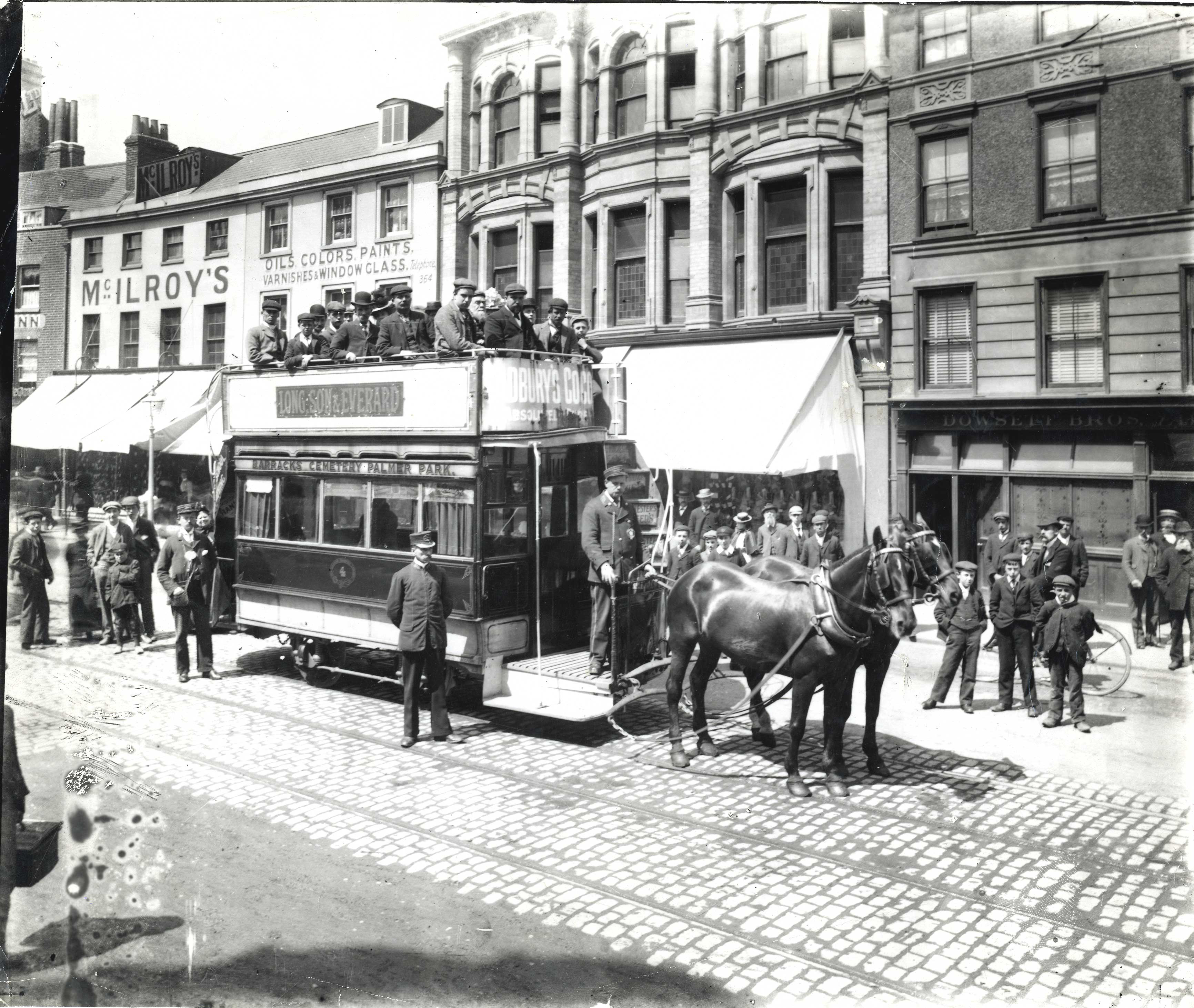 Reading Tramways Company. Horse-tram No. 4 in Broad Street, c. 1900, heading eastwards on the "Barracks - Cemetery - Palmer Park" route. The driver, conductor and inspector pose for the camera. The saloon is almost empty, but the upper deck is thronged, and there are several spectators in the picture. Recognisable shops in the background: No. 50 (William McIlroy, boot and shoe warehouse); No. 49 (William Archer oils, colours, paints and varnishes); Nos. 47 amd 48 (A. H. Bull, gentlemen's and boys' outfitters); No. 46 (Dowsett Brothers, brewers). 1900-1909 : photograph by Walton Adams. There are postcard versions at Dynix 1244283 and 1244284.